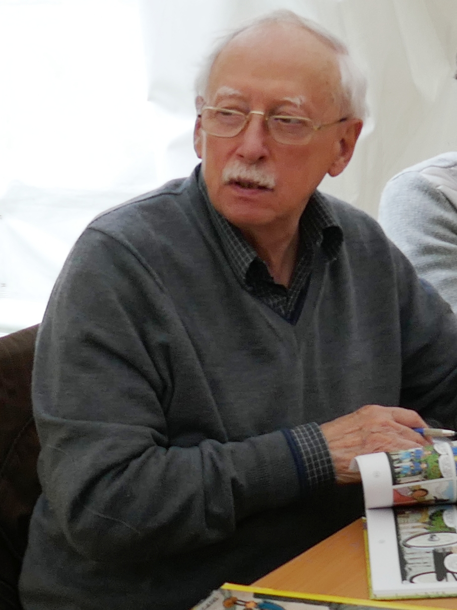 Lambil at Festival de la BD, Buc (2017)